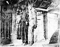 The corpses of Ernest Harrison, Sam Reed and Frank Howard hanging from a rafter in McAuley's sawmill, Wickliffe, Kentucky, September 11, 1911. [1] (Cf. the book Without Sanctuary, James Allen, ed., 2000)A text of the Record Herald, Sept. 12, 1911:[...] "Ernest Harrison, Sam Reed and Frank Howard, confessed to the murder of Washington Thomas, an aged, respectable colored man. Thomas was employed in a tobacco factory, and Saturday night the three men waylaid him along the railroad track, killed him and robbed his clothes of his salary. They were speedily captured and placed in jail. During the night the colored people of Wickliffe held secret meetings and decided to lynch the murderers. Everything was quietly done. The bodies of the lynched men were left hanging until noon today, and there will be no effort by the authorities to apprehend the executioners."